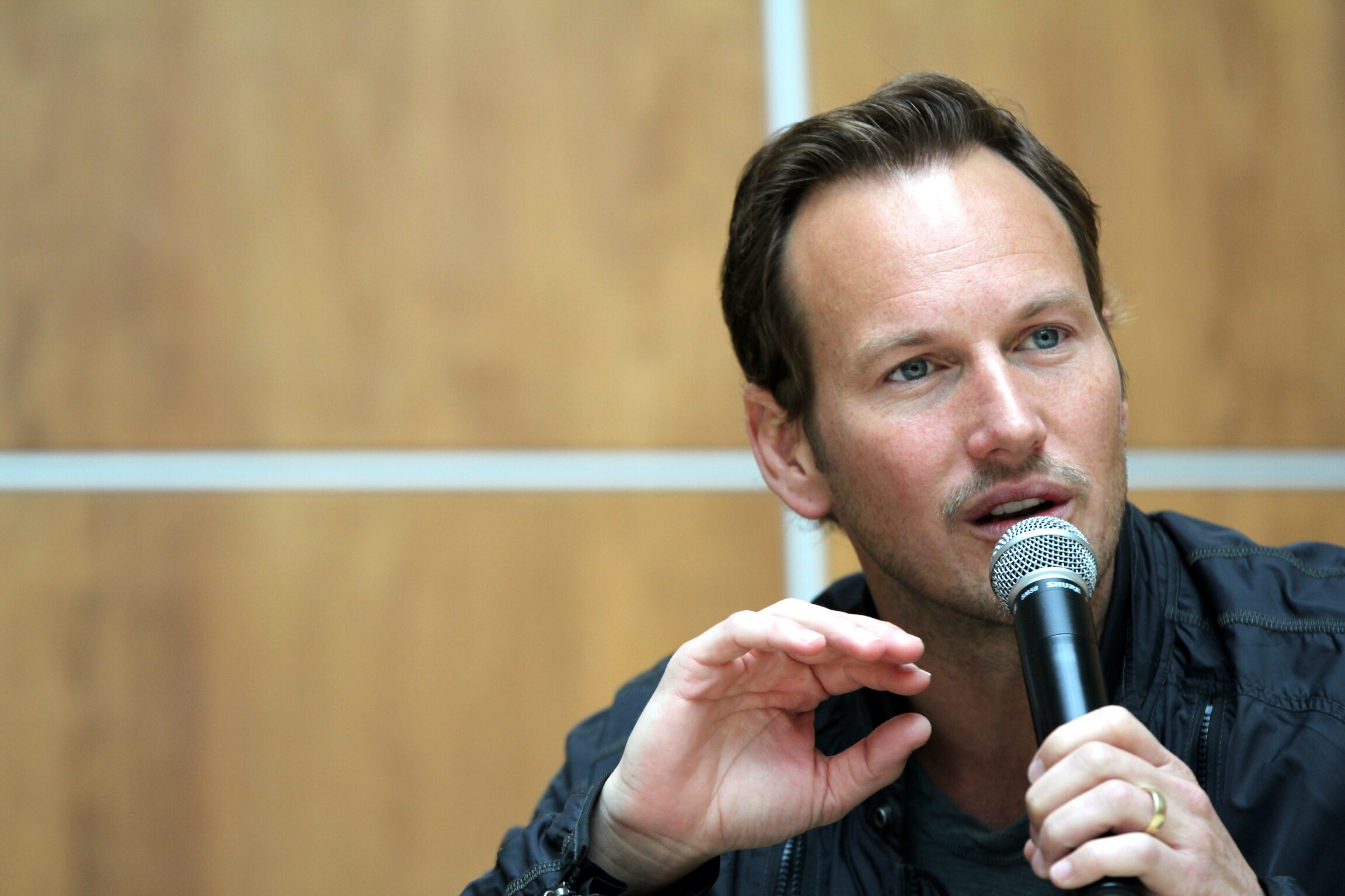 Patrick Wilson & Friends-Kimberly Cecchini-0010